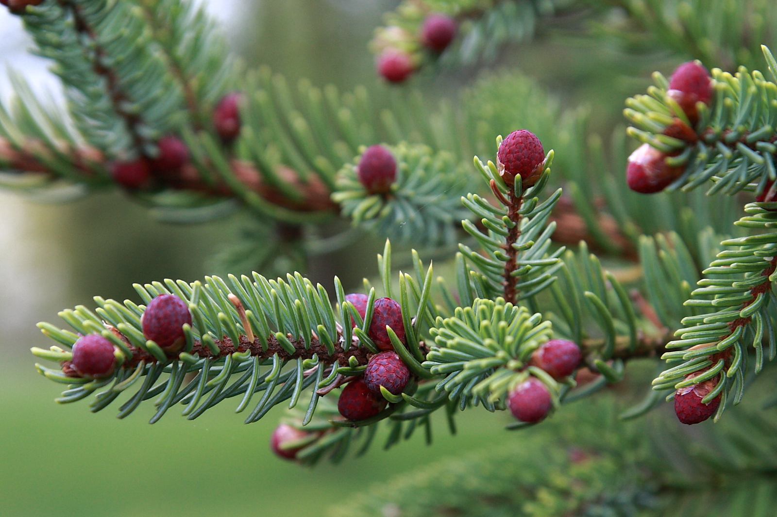 Picea mariana pollen cones before pollination. Cultivated tree in Estonia, Keila.